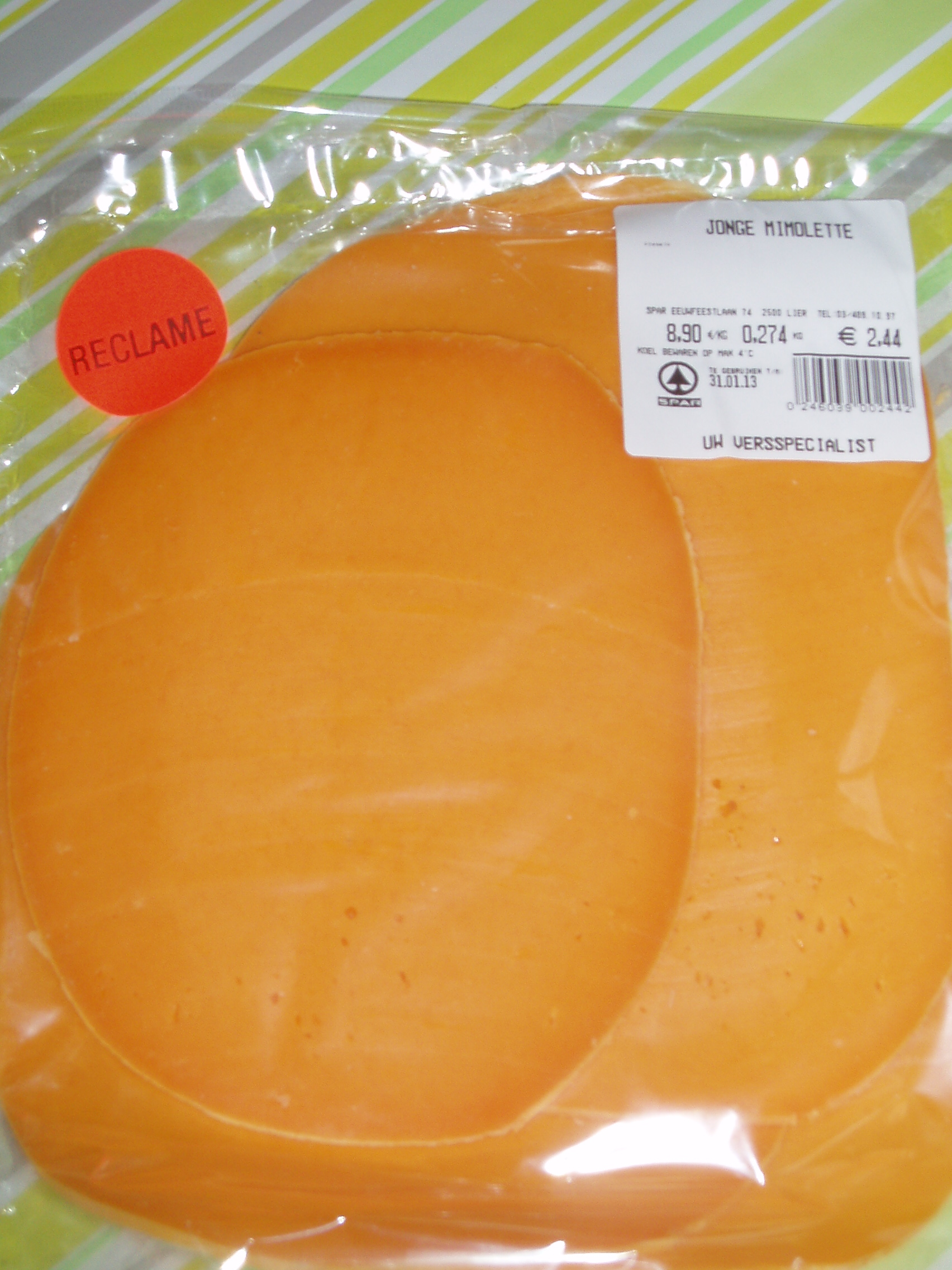 Mimolette cheese